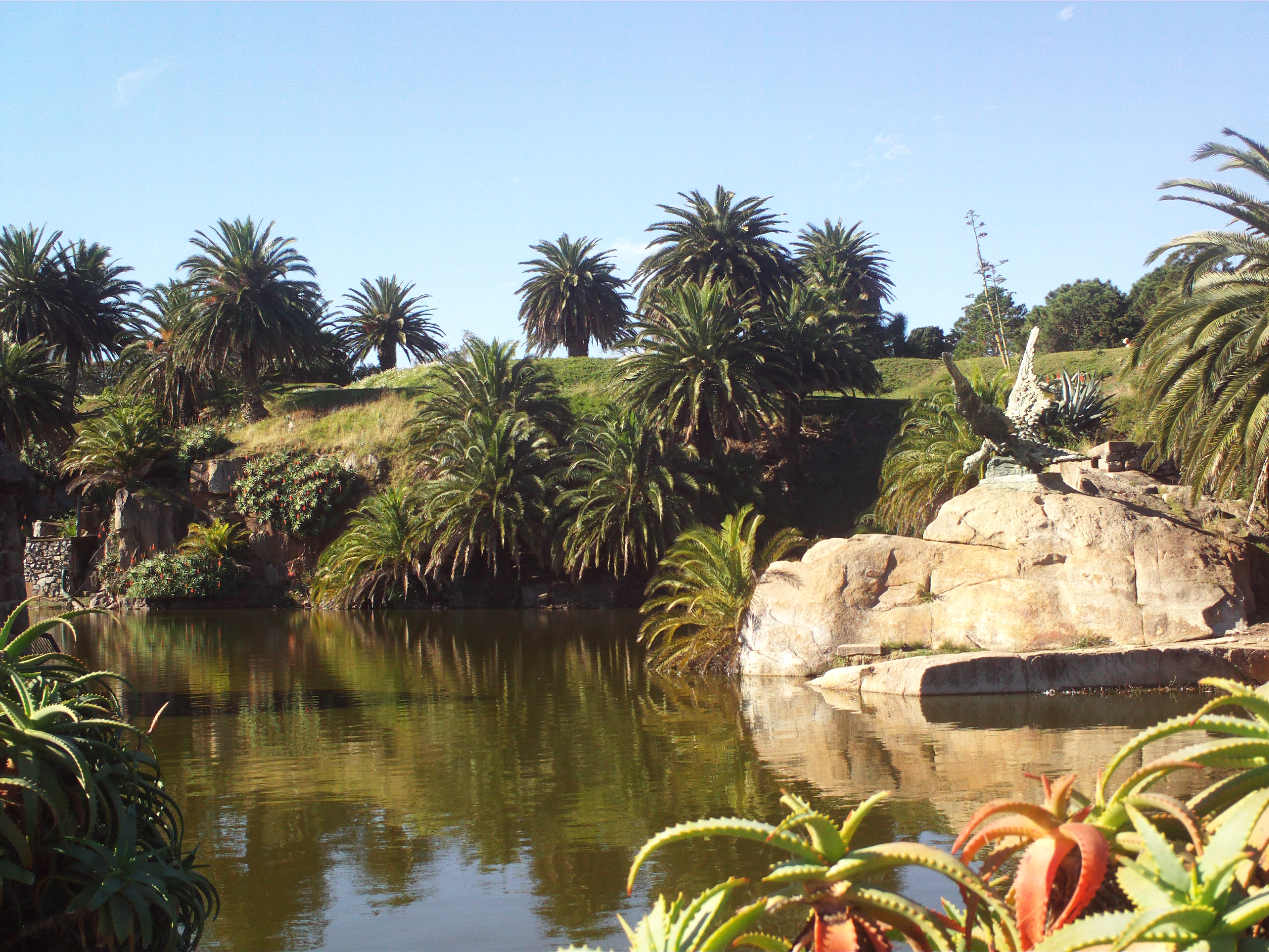 The southwestern section of Parque Rodó which is known as Parque Instrucciones del Año XIII